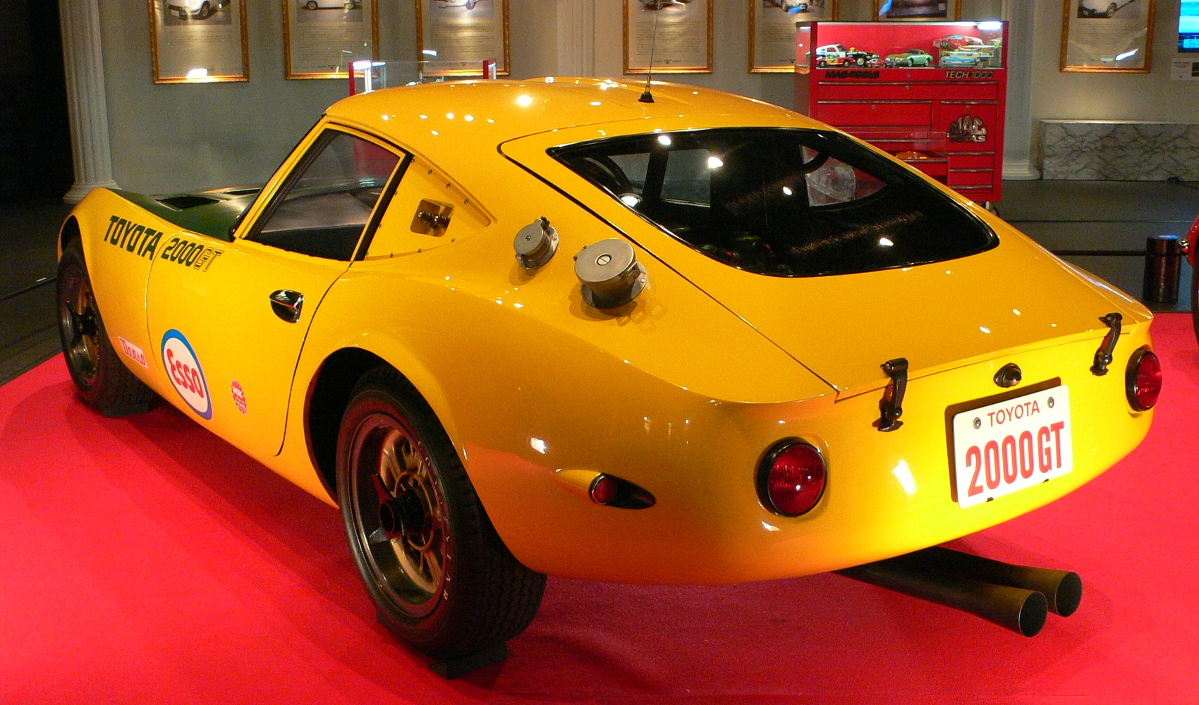 Toyota_2000GT(1966 Speed trial spec) photographed in MEGAWEB.